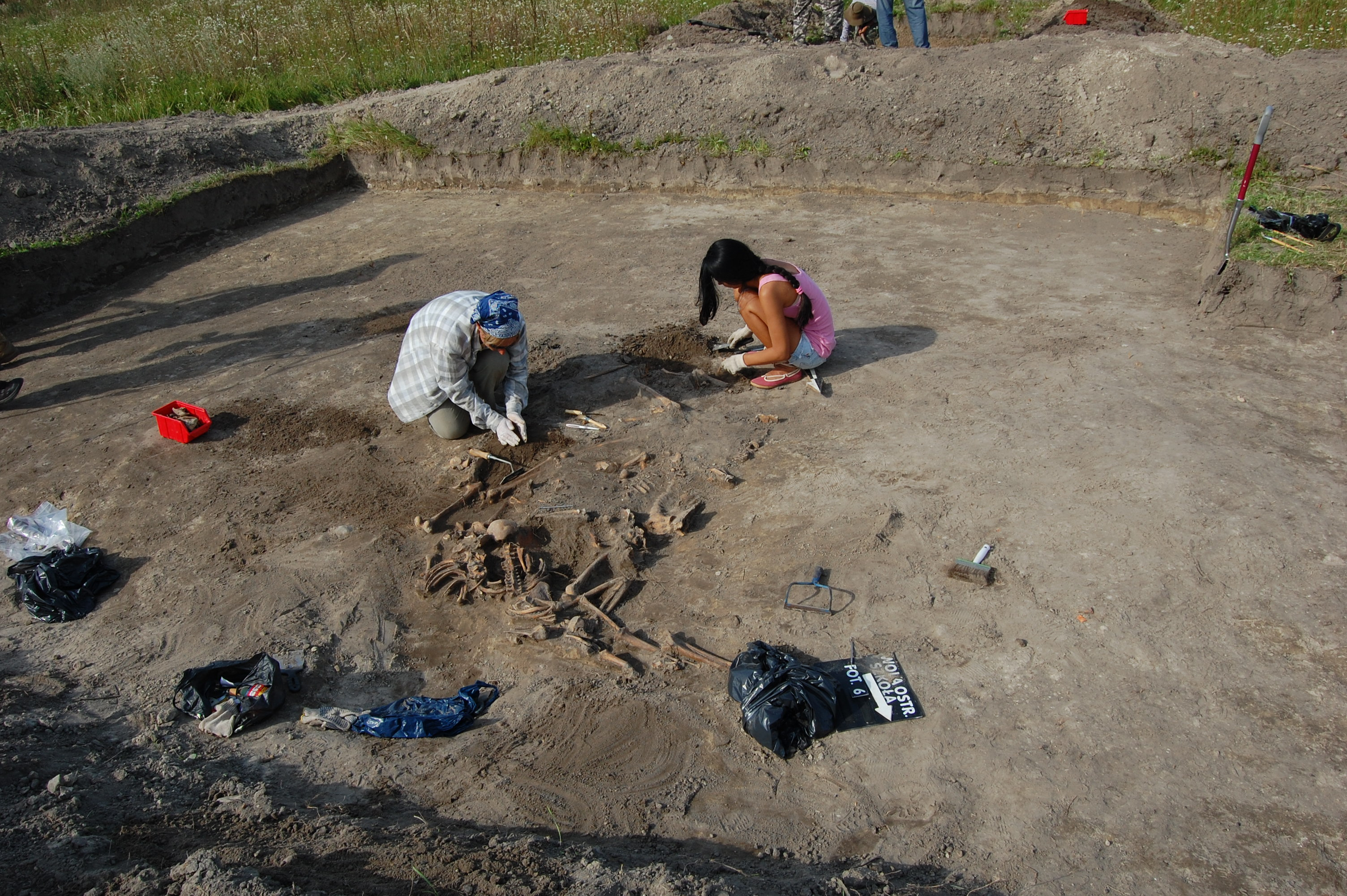 Wola Ostrowiecka, exhumation in the place of former school (2011), by Polish anthropologist Dr Leon Popek. The massacre of Polish inhabitants of Wola Ostrowiecka in the former Wołyń Voivodeship of the Second Polish Republic was committed in 1943 by OUN-UPA.)[1]